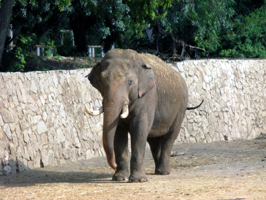 Asian elefant at Ramat-Gan Safari